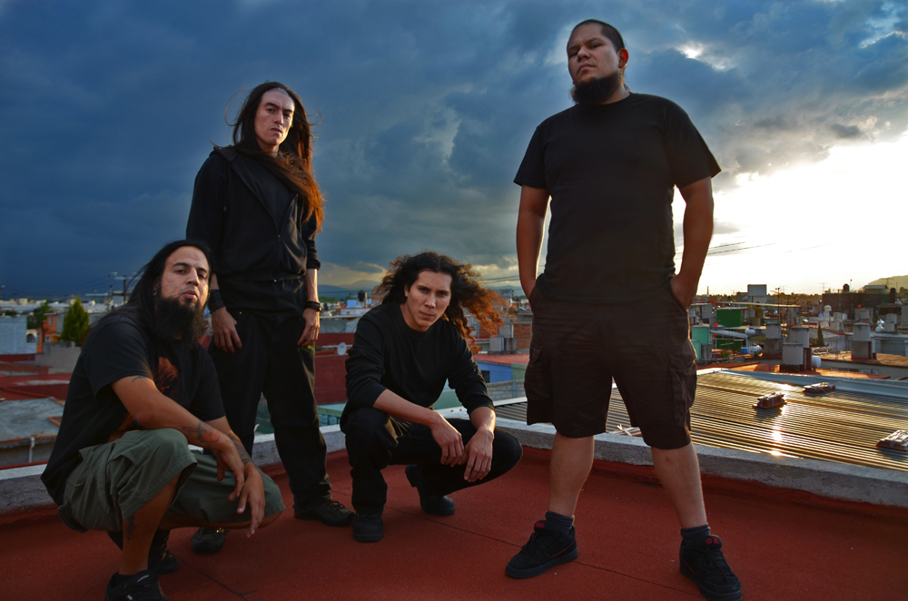 desangre 1